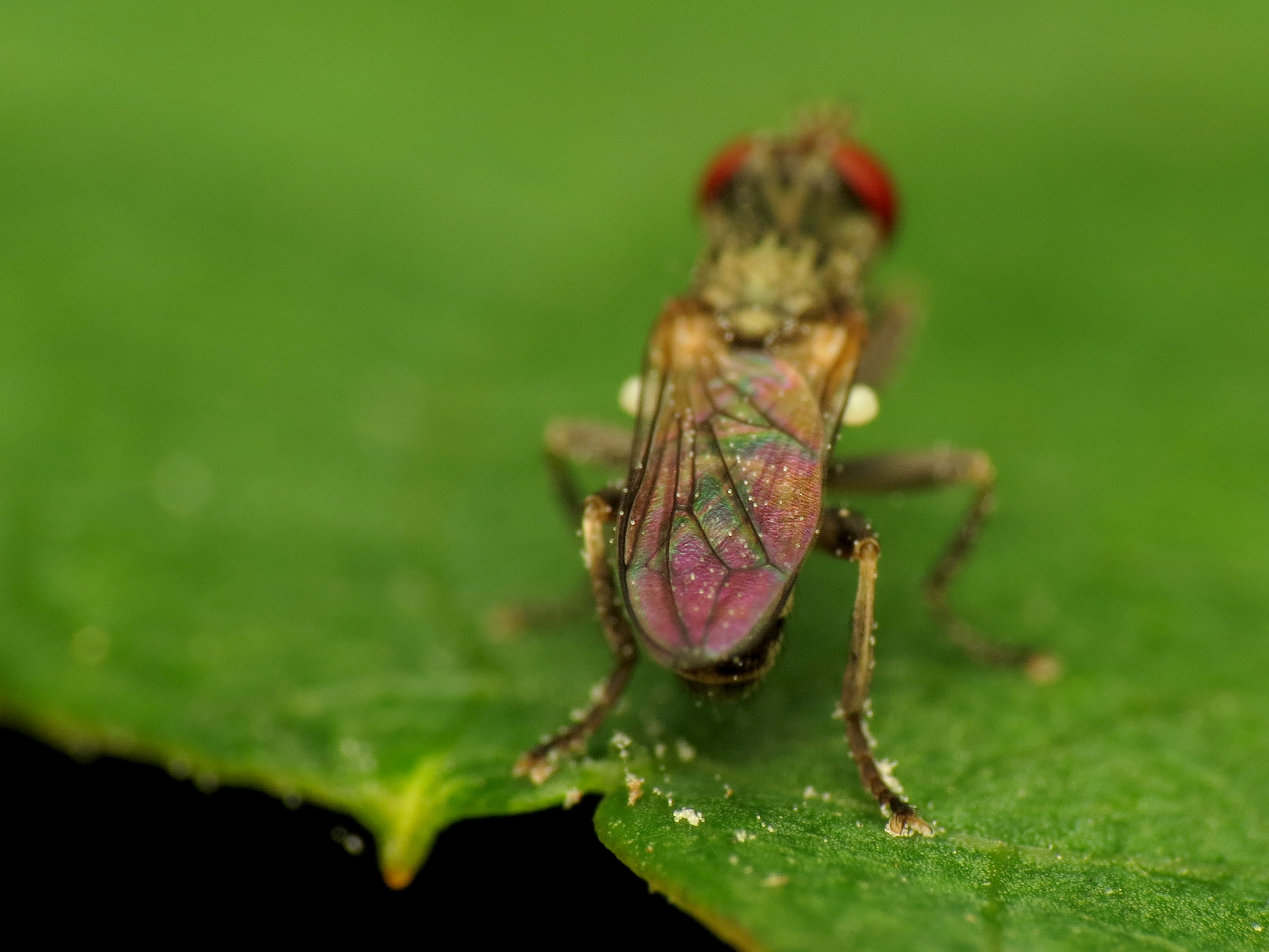 Little Conopid Fly, Zodion sp., back view, Rock Creek Park, Washington, DC, USA.